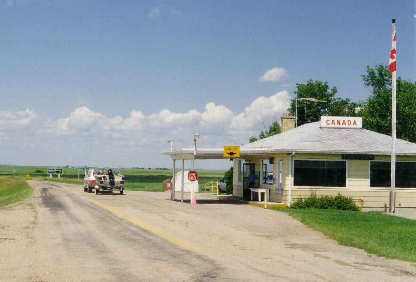 Torquay, SK port of entry